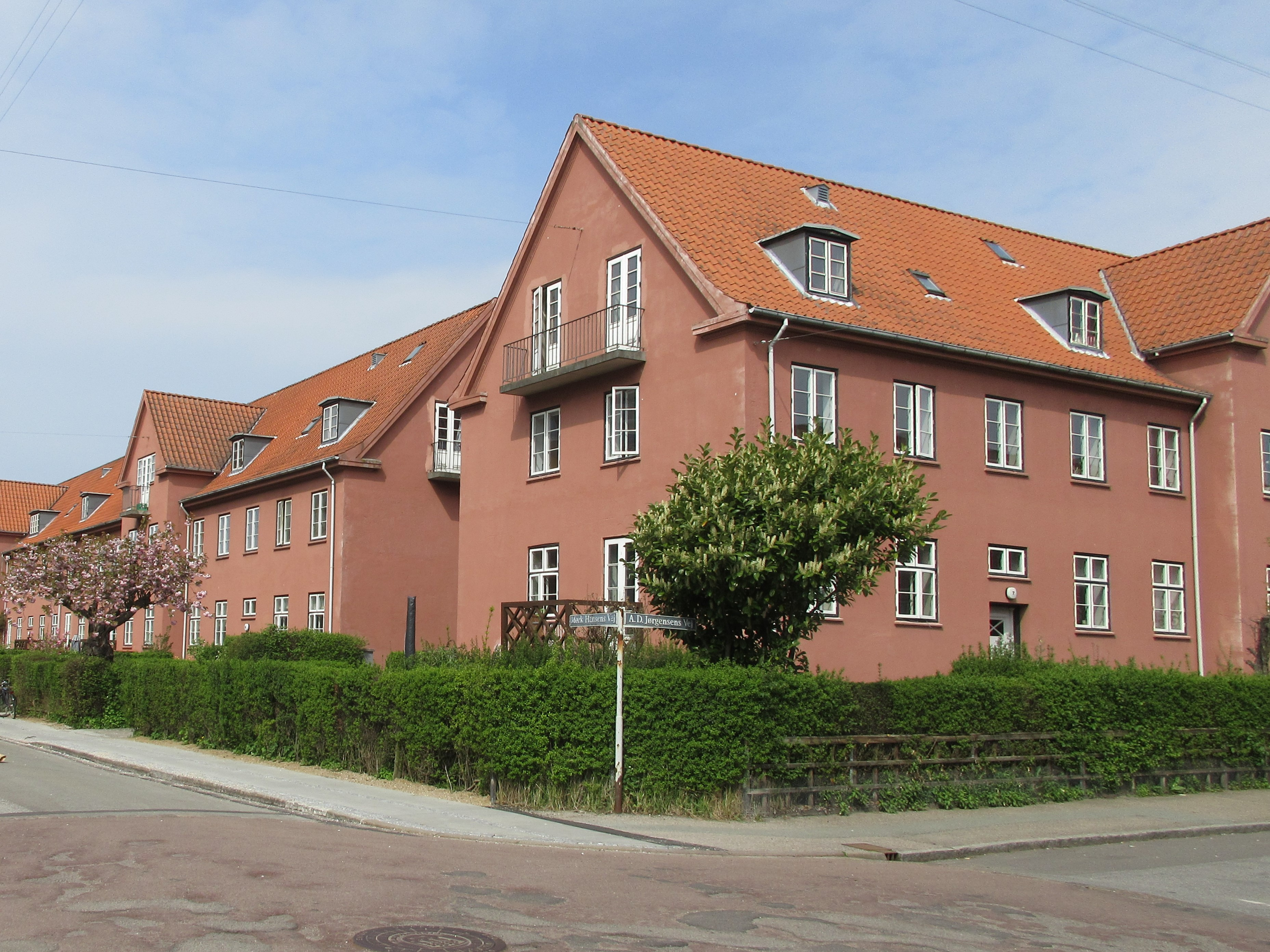 Den Sønderjyske By in Frederiksberg, Denmark